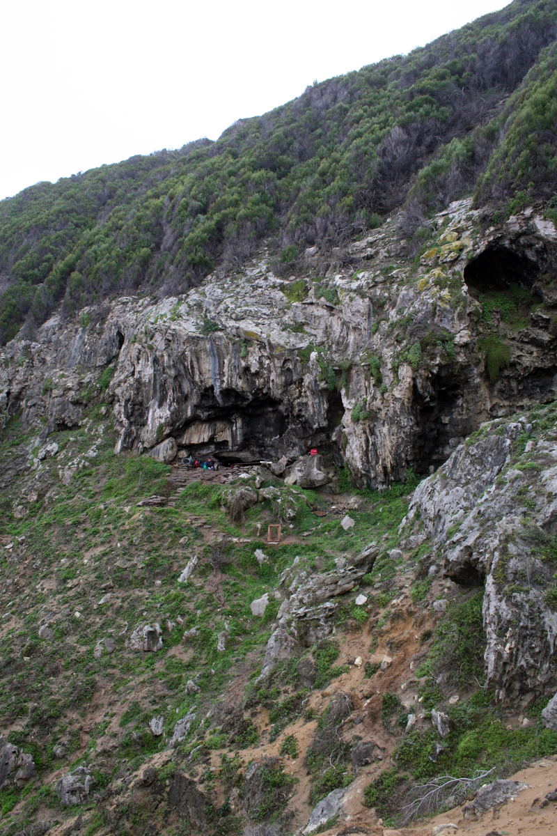 general view of Blombos site, South Africa